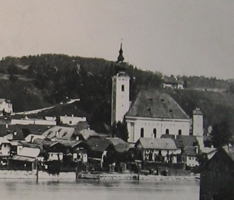 Historical photograph of the church of St. Nikolaus in Oberndorf bei Salzburg; now the Stille-Nacht-Kapelle (Silent-Nicht Chapel) is situated in this place. Reproduction by courtesy Stille Nacht Museum Oberndorf.